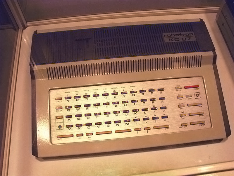 A Robotron KC 87 computer